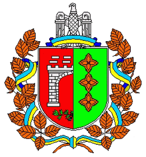 Coat of arms of Chernivtsi Oblast, Ukraine